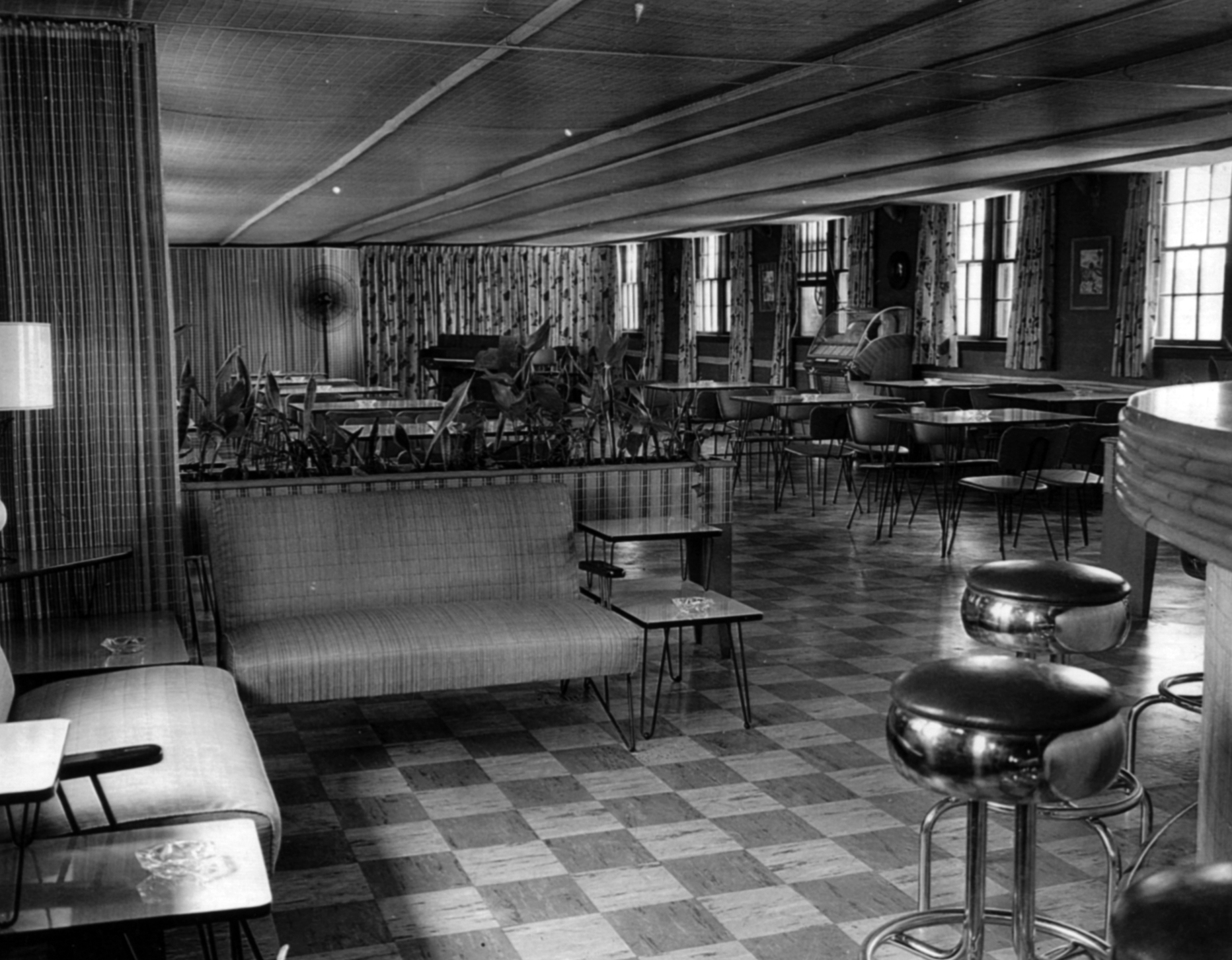 Fort Bragg NCO Club From the National Archives RG111-SC460707.